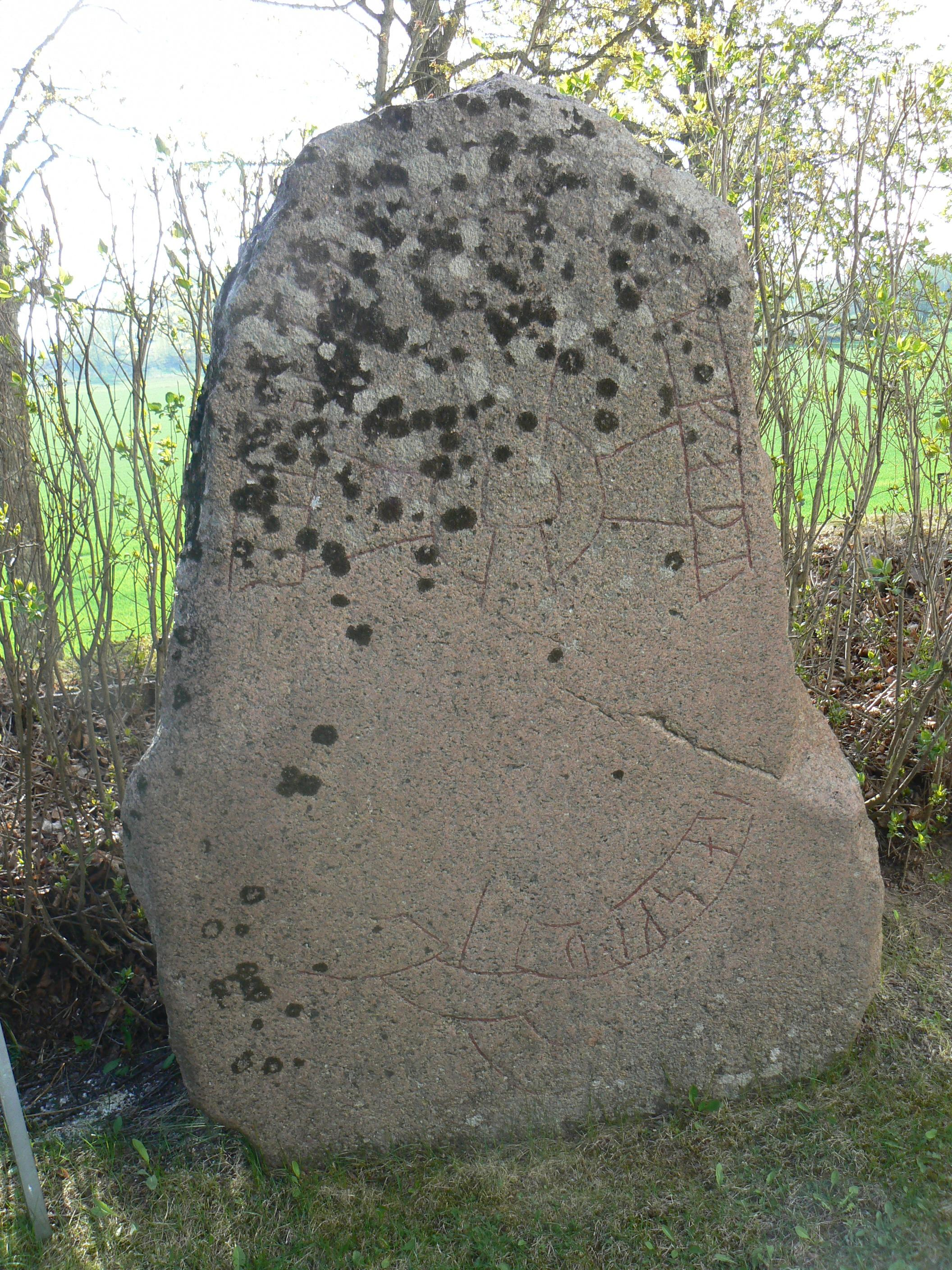 Runestone ouside Gammkil church in Östergötland, Sweden. ÖG 180. "Halfdan raised/carved this stone in memory of Hrólfr, his father; (he) was good."